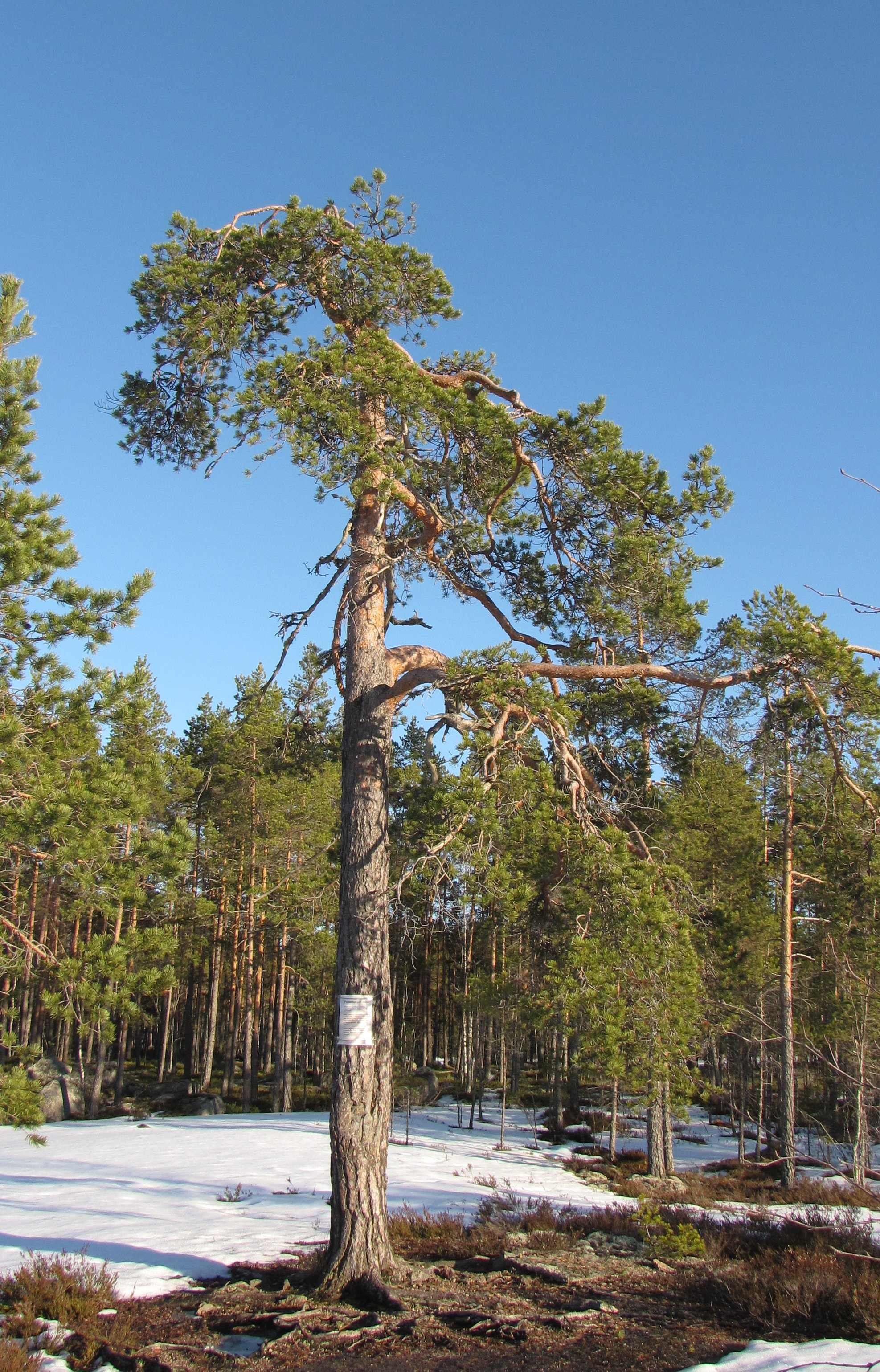 ”Paimenpojan mänty” pine (Pinus sylvestris) on the top of Isovuori hill, Jalasjärvi, Finland.